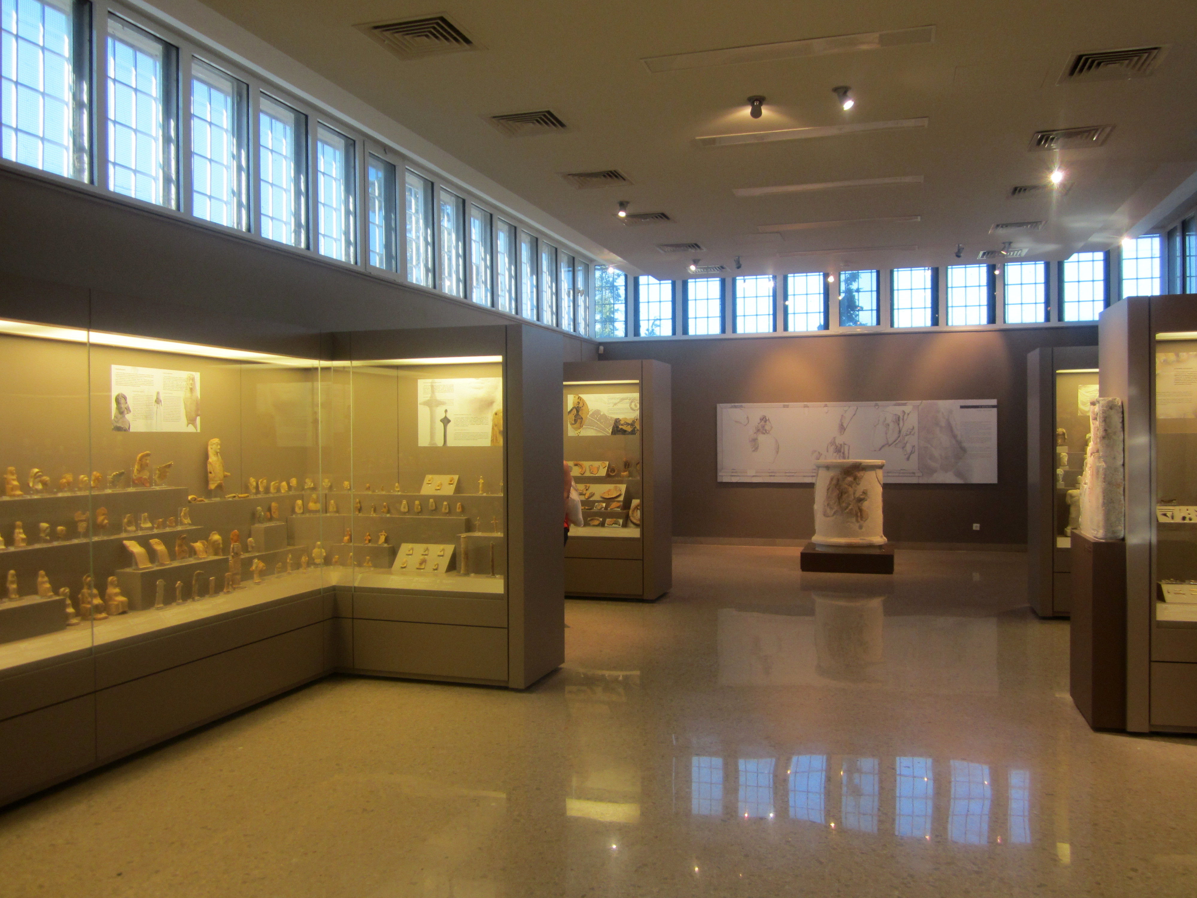 Collections of the Archaeological Museum of Brauron, Greece.